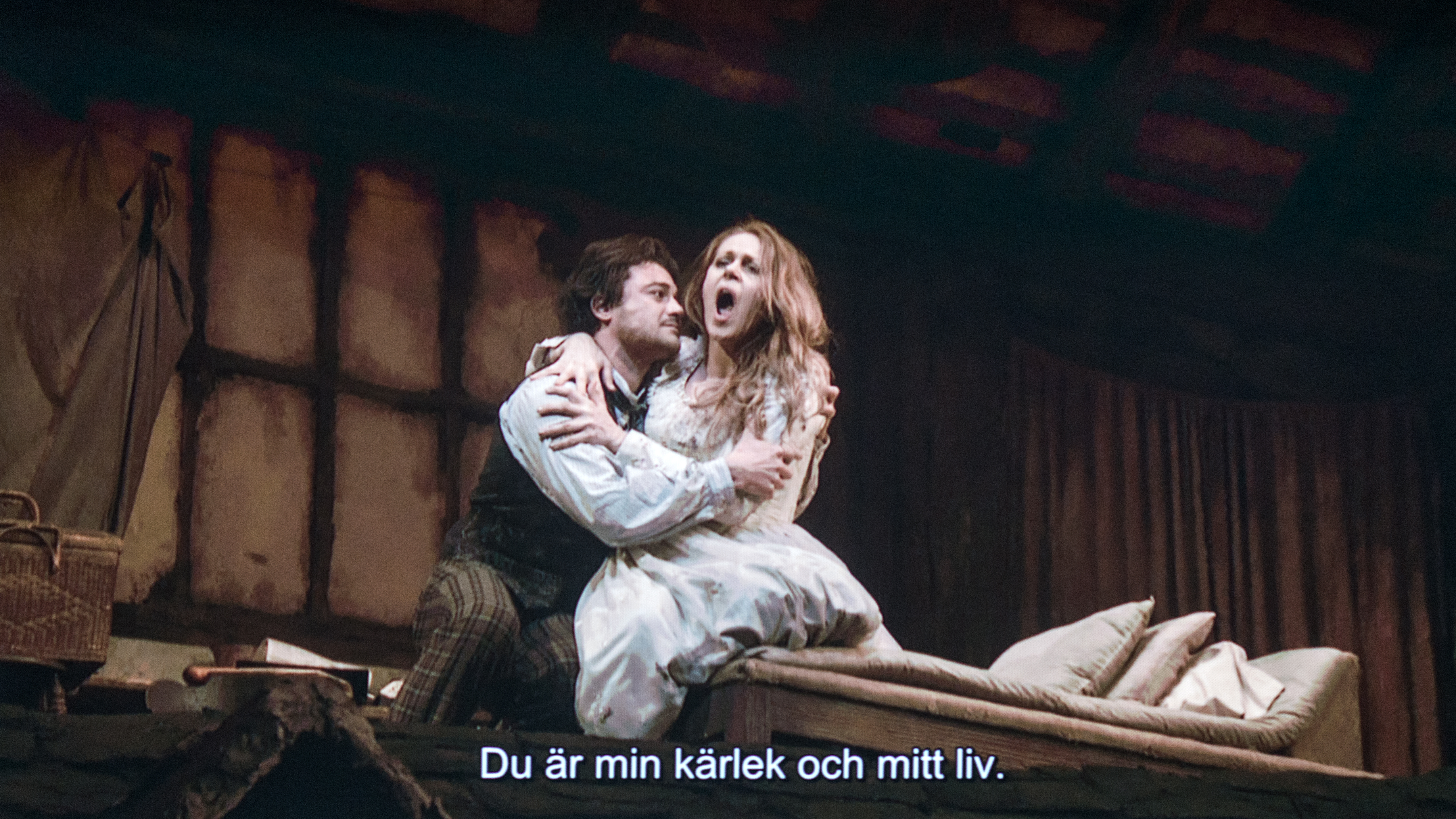 La Bohème from the Metropolitan Opera April 2014